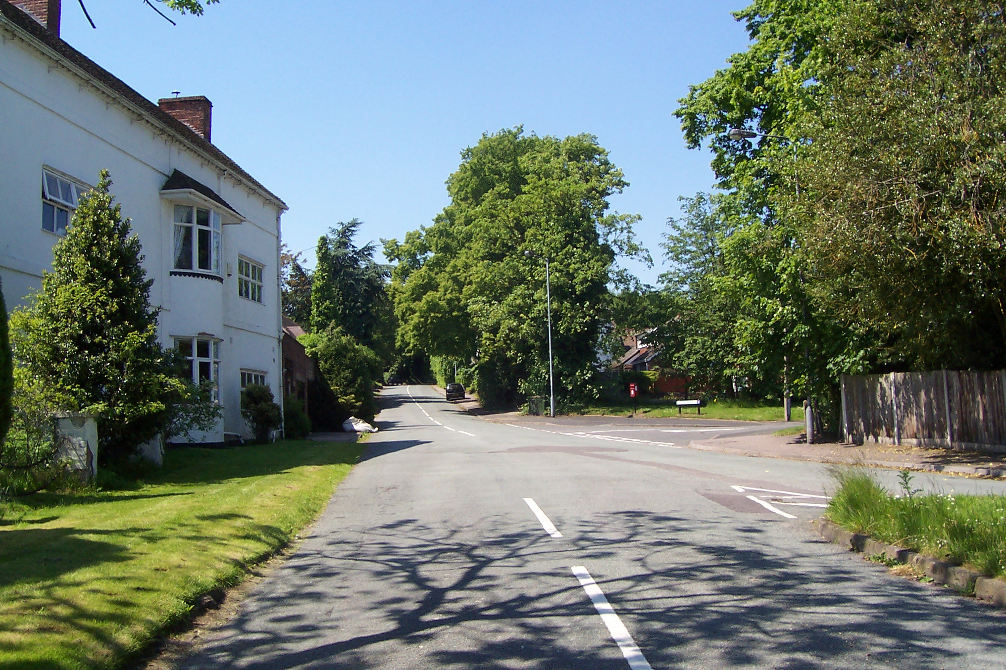 A view of Upper Stonnall, Staffordsire.